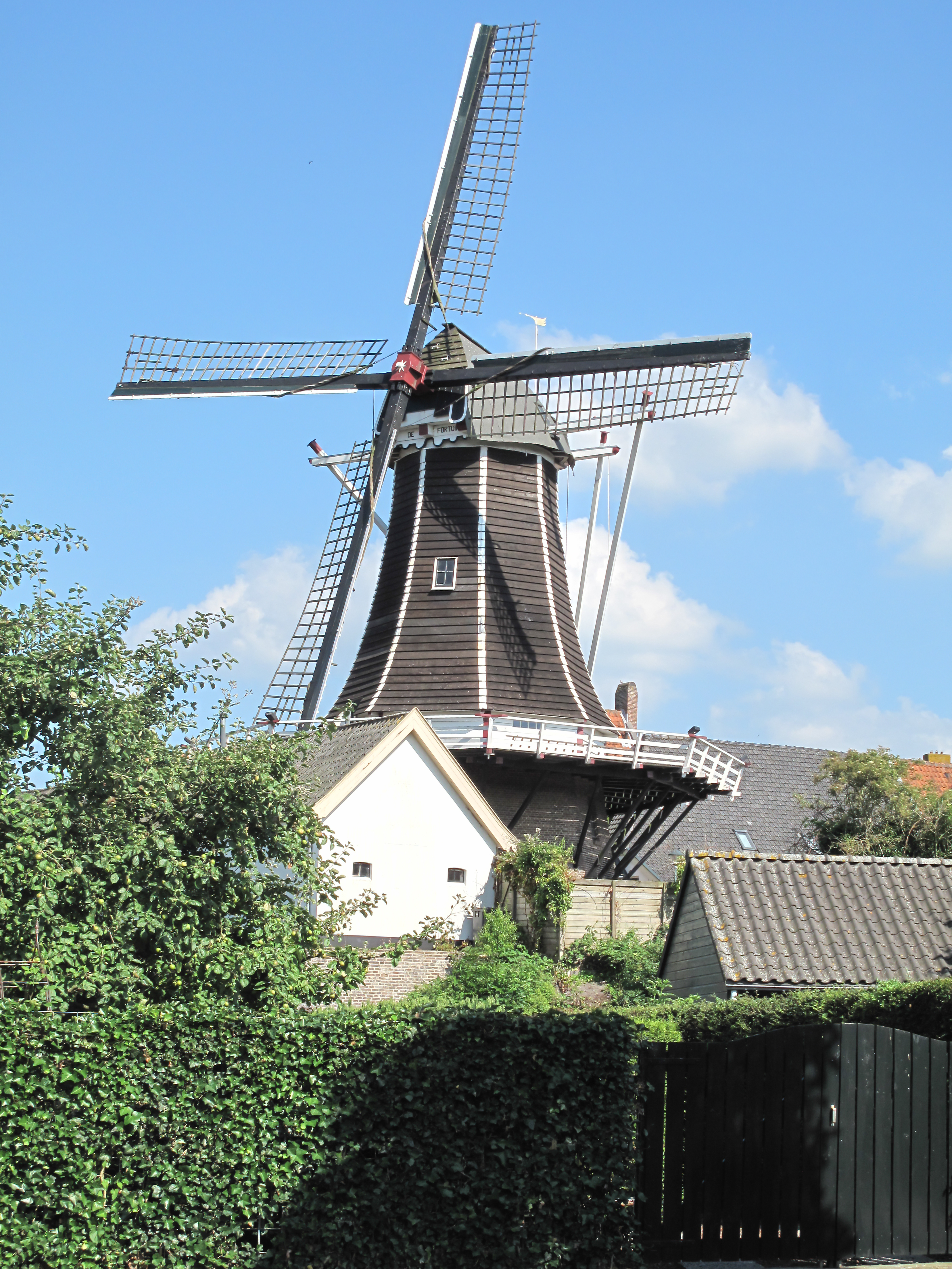 Hattem, windmill: windkorenmolen De Fortuin